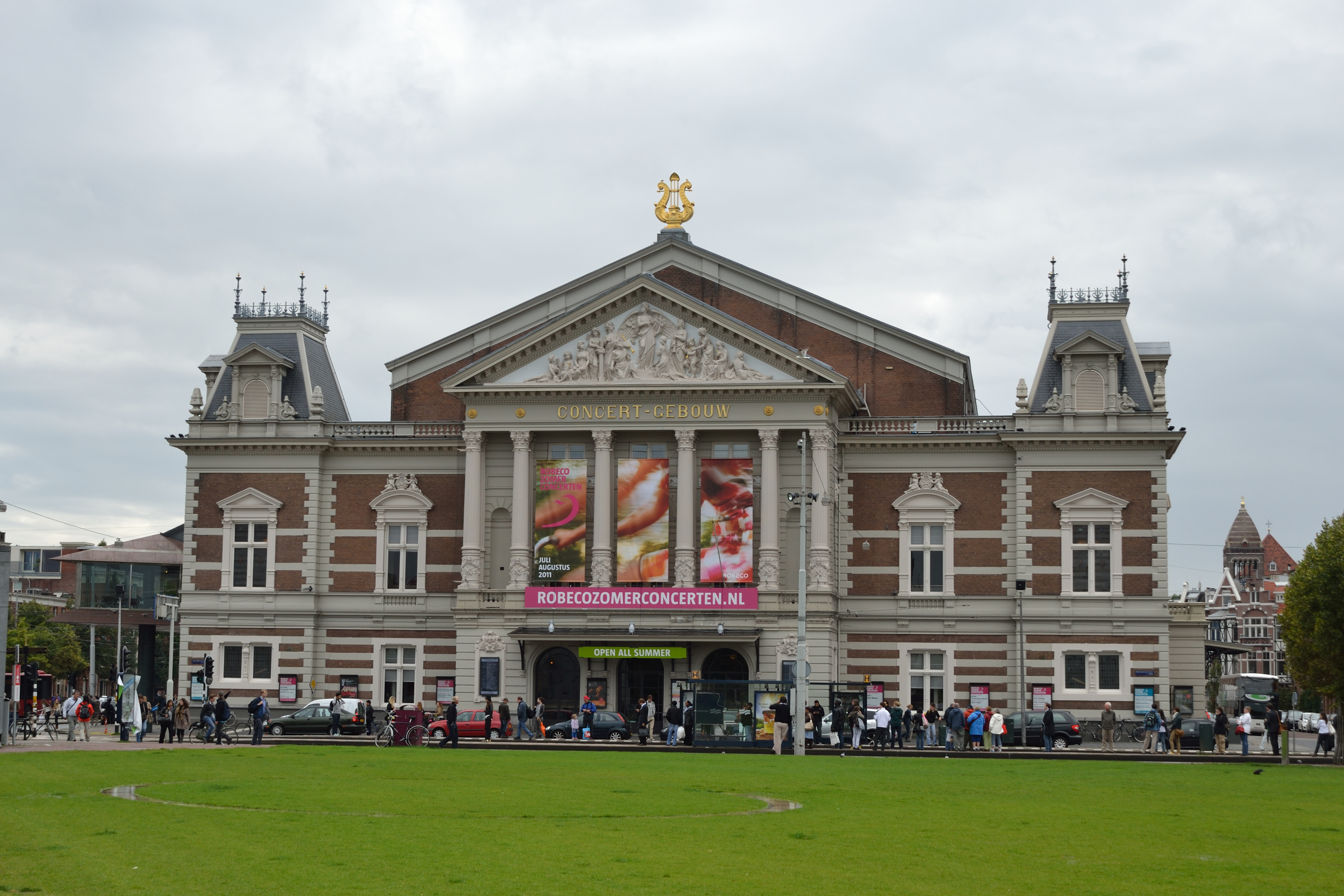 Concertgebouw in Amsterdam, the Netherlands.